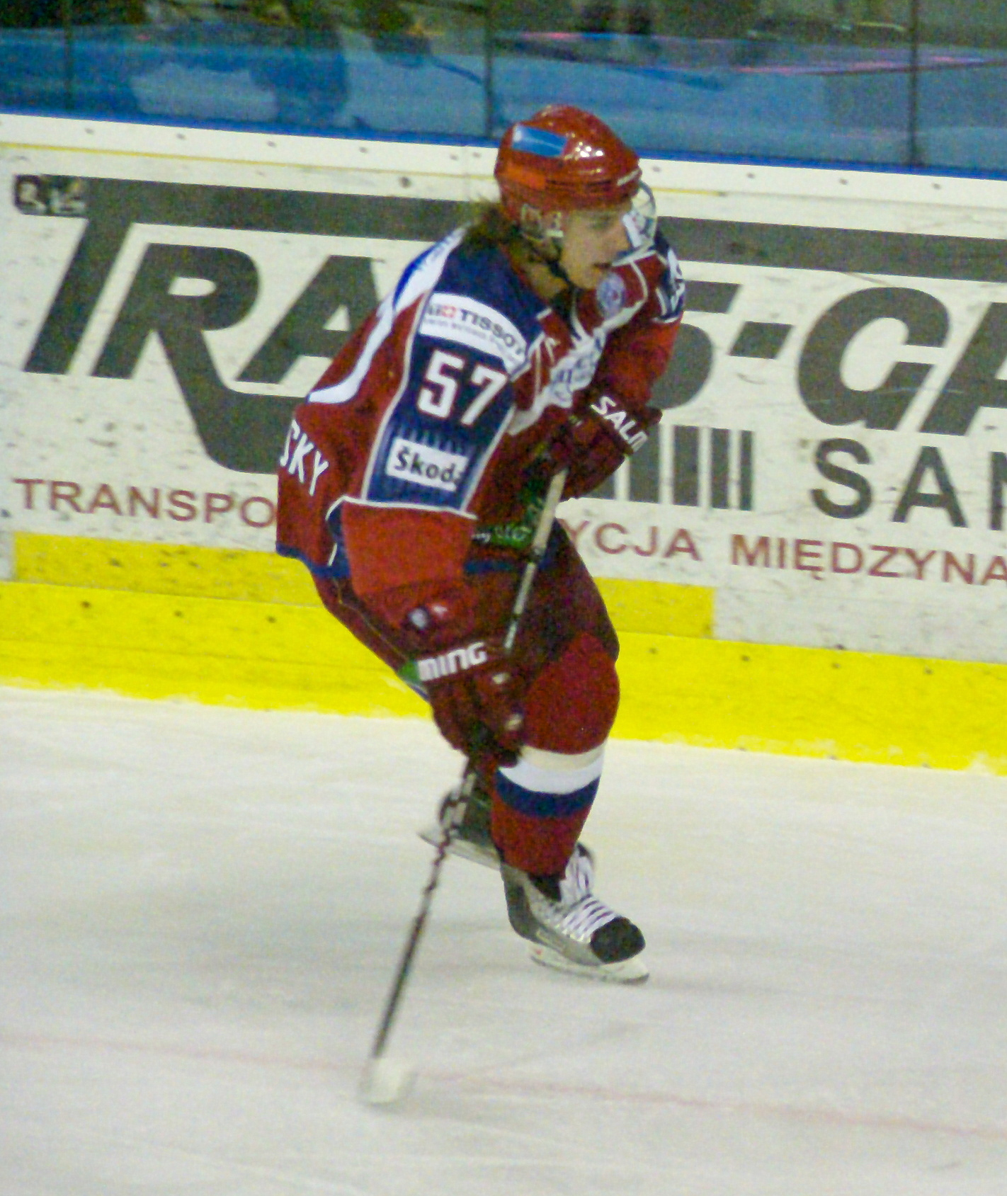 Dmitri Vishnevsky - EIHC Tournament in Sanok (Poland), 2010 September 11, Ukraine - Russia 0:7